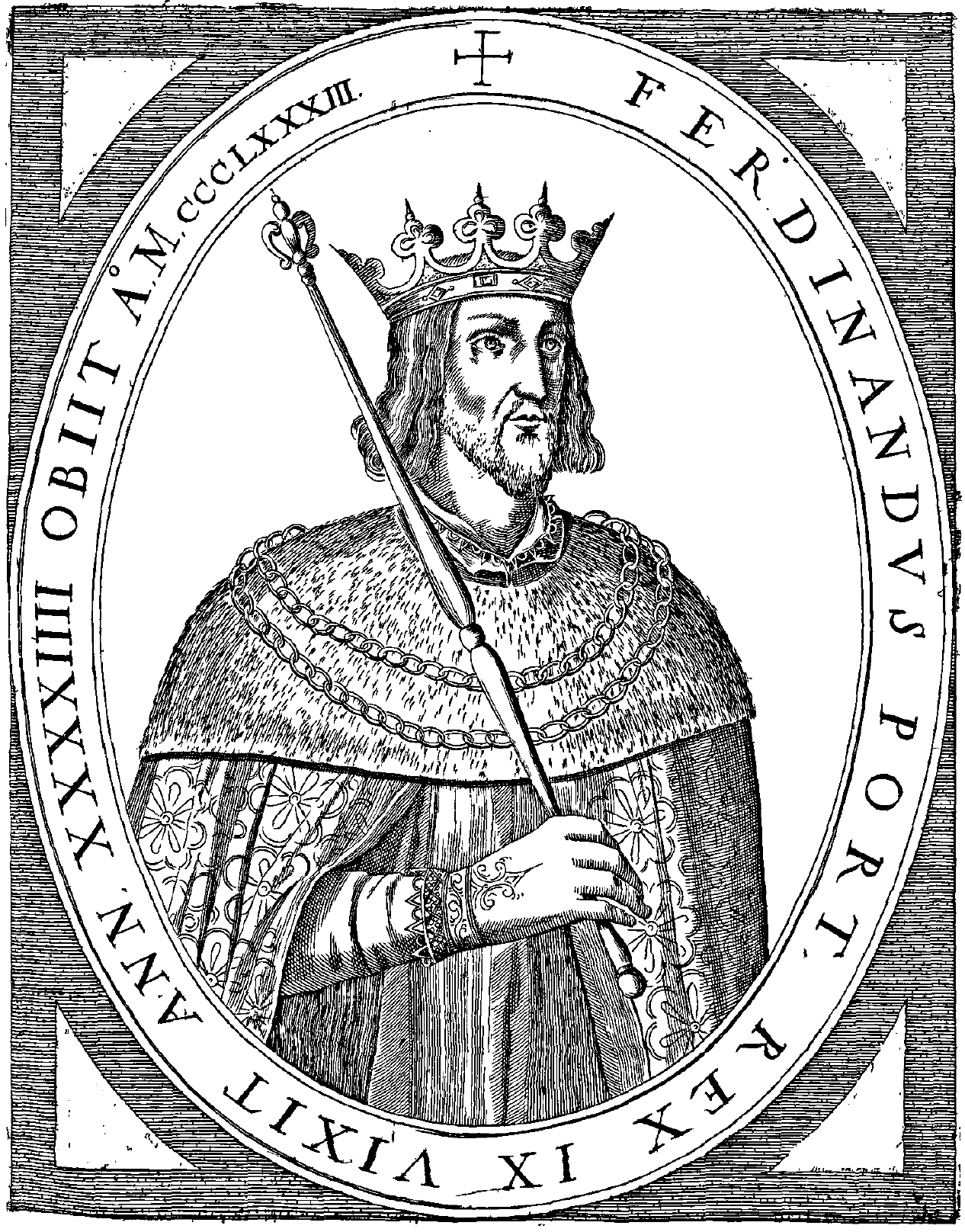 Fernando I, King of Portugal